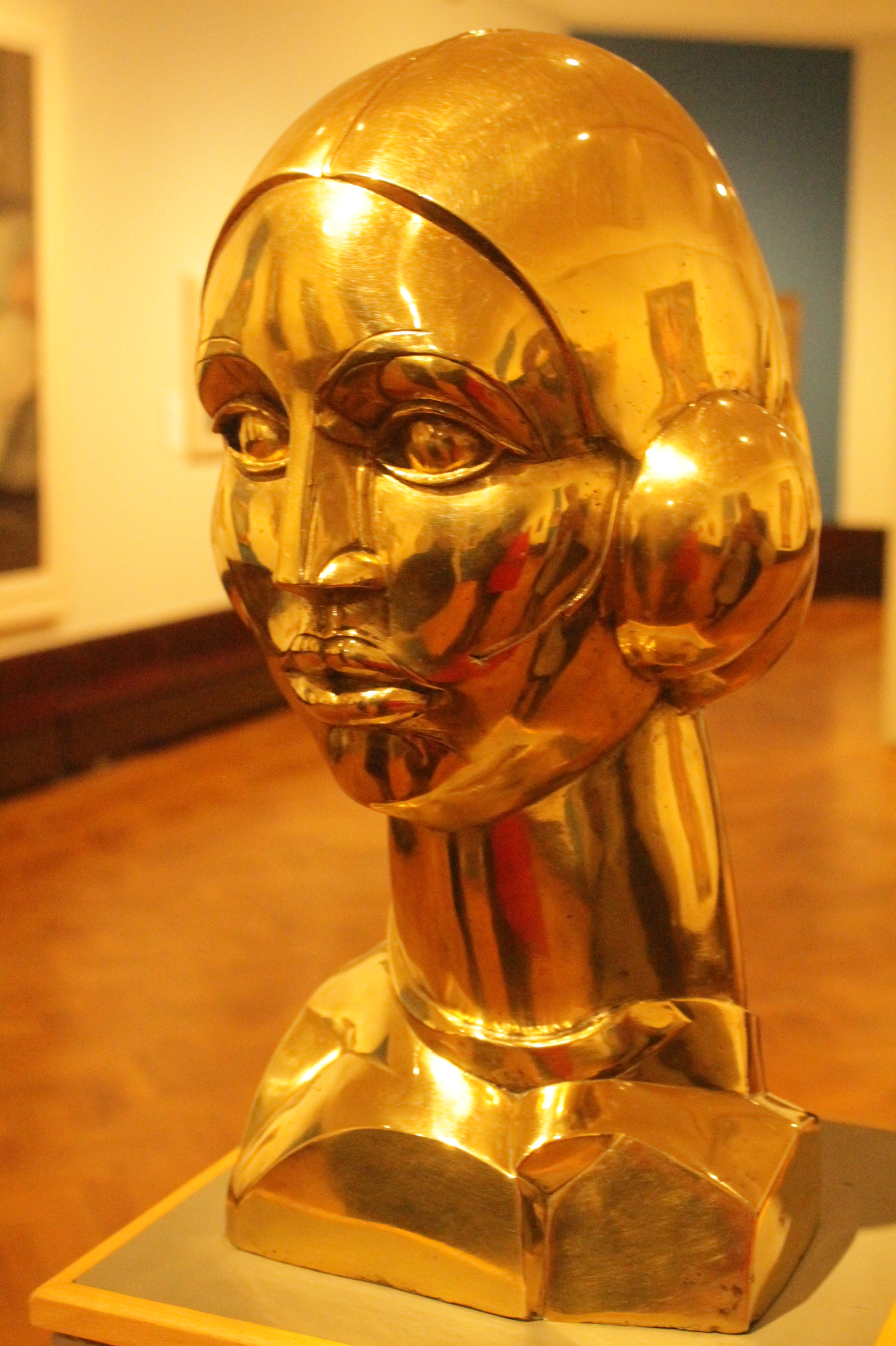 Eastre, Hymn to the Sun by J D Fergusson, Perth Museum